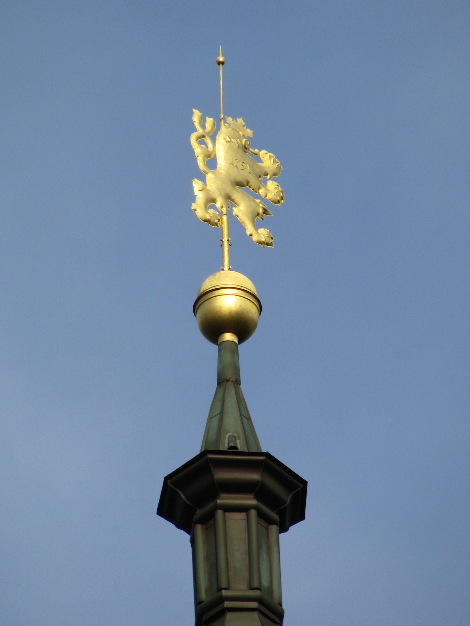 Golden lion on the top of St. Mary's church in Kamenz in the district Bautzen in Saxony, Germany seen from Roter Turm.